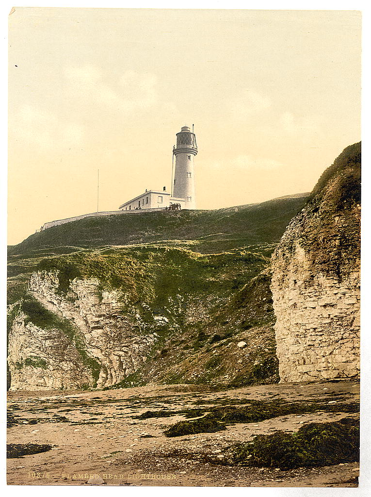 [Flamborough, lighthouse, Yorkshire, England] [between ca. 1890 and ca. 1900]. 1 photomechanical print : photochrom, color. Notes: Title from the Detroit Publishing Co., Catalogue J--foreign section, Detroit, Mich. : Detroit Publishing Company, 1905. Print no. "10376". Forms part of: Views of the British Isles, in the Photochrom print collection. Subjects: England--Flamborough. Format: Photochrom prints--Color--1890-1900. Repository: Library of Congress, Prints and Photographs Division, Washington, D.C. 20540 USA, Part Of: Views of the British Isles (DLC) 2002696059 More information about the Photochrom Print Collection is available at Higher resolution image is available (Persistent URL): Call Number: LOT 13415, no. 1061 [item]